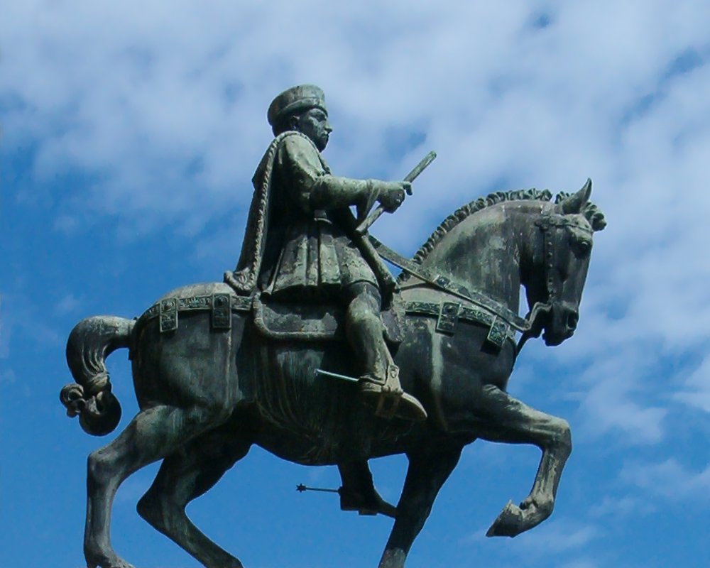 The 20th century replica, before the Palazzo Municipale (Town Hall) of Ferrara (Italy), of the 15th century equestrian bronze monument to Niccolò III of Este. It is given to Leon Battista Alberti.